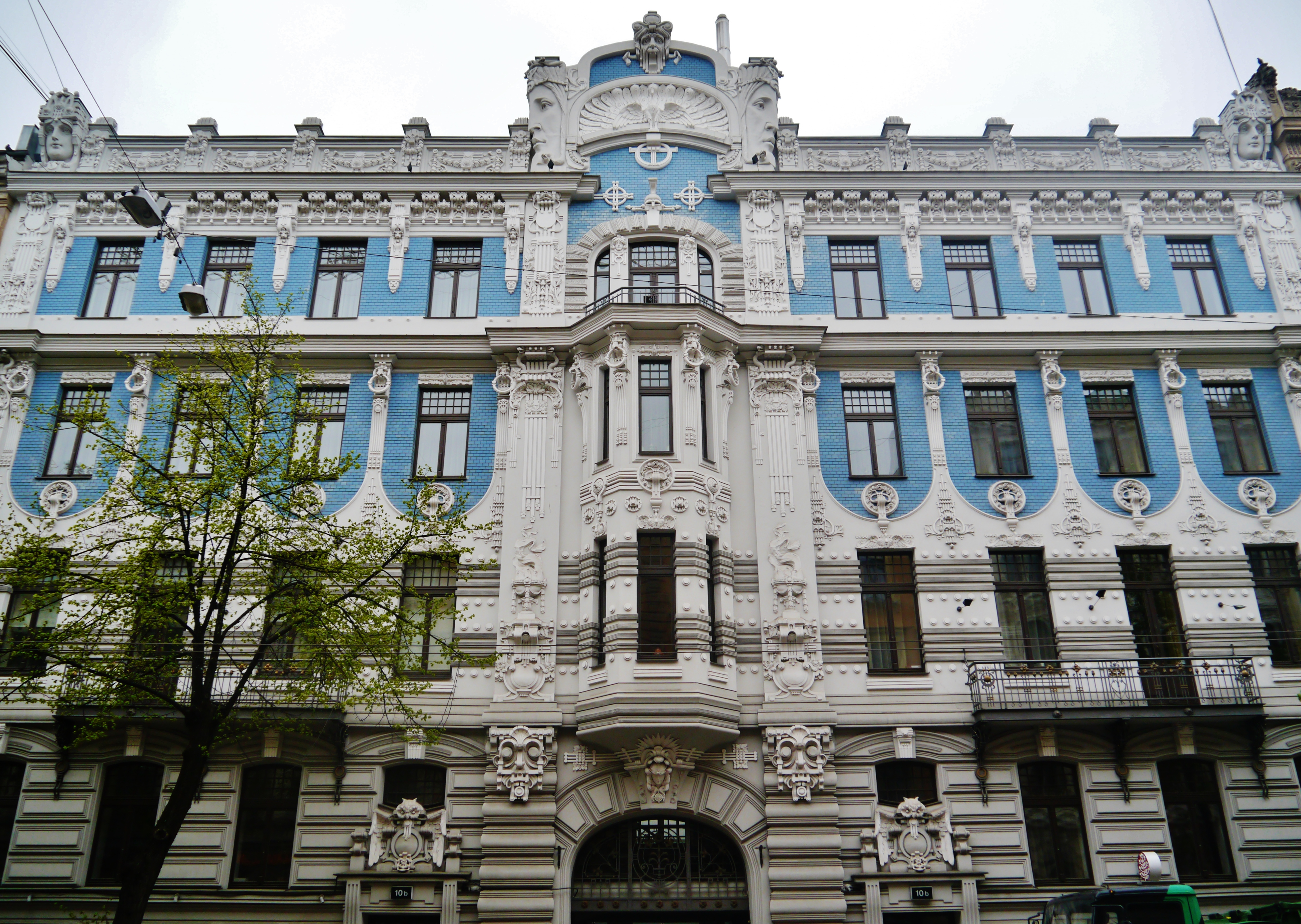 Art Nouveau at Albert Street, Riga, Latvia